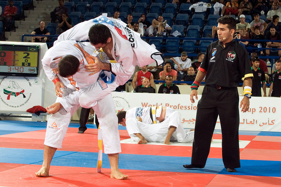 Braulio Estima taking the back of Alexandre Ceconi at the World Professional Jiu Jitsu Cup 2010 in Abu Dhabi.